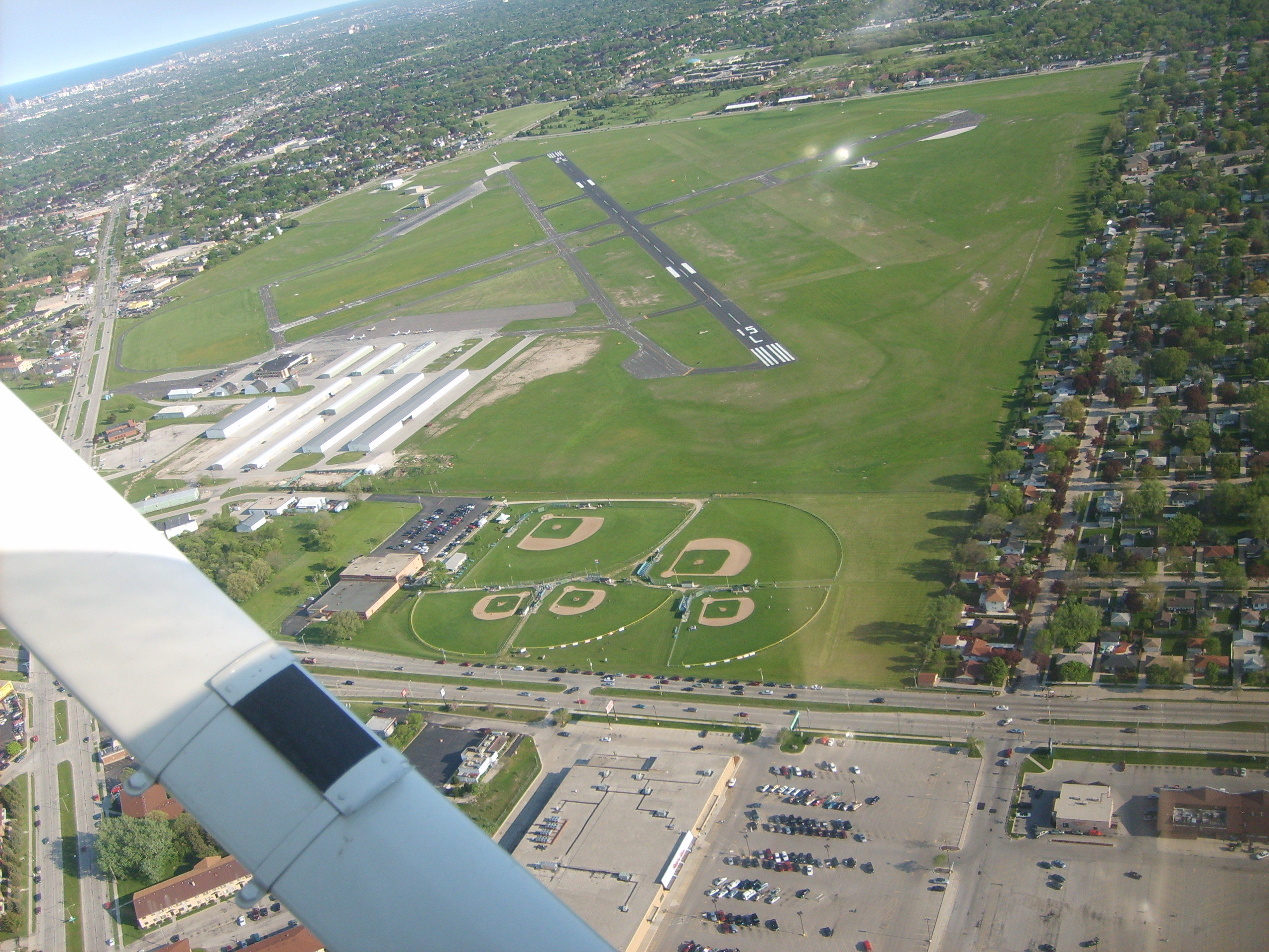 Milwaukee's Lawerence J Timmerman Field